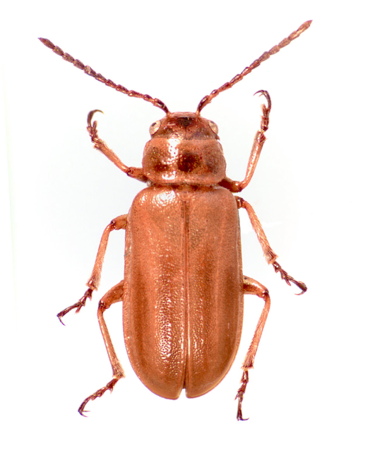 Diorhabda meridionalis Berti & Rapilly male specimen collected from Rask, Iran.